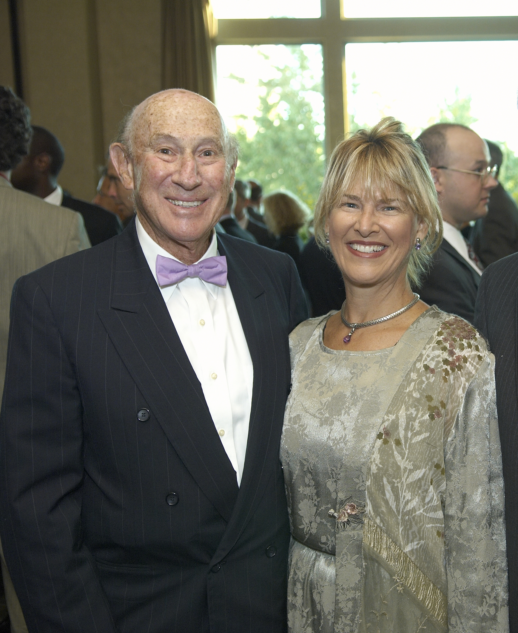 Photograph of Rudolf Pariser and his wife Louise Pariser, physical chemist, at Innovation Day, 7 September 2005, at the Chemical Heritage Foundation, Philadelphia, PA, USA.